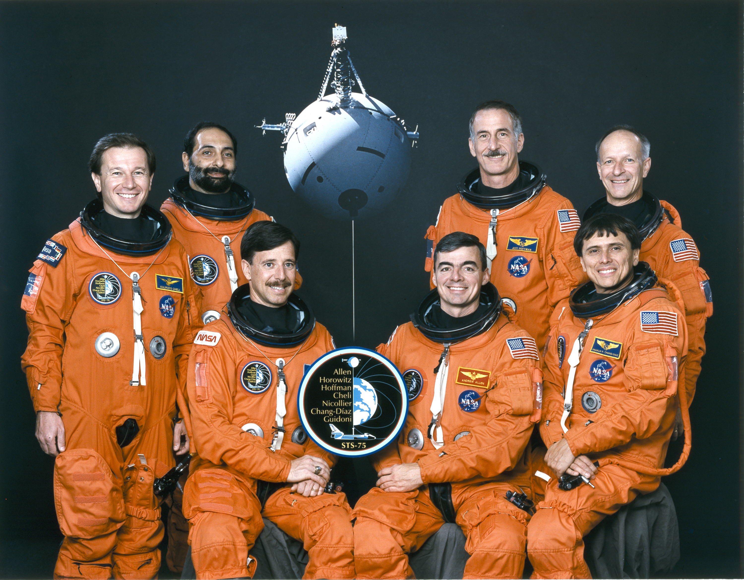 The crew assigned to the STS-75 mission included (seated left to right) Scott J. Horowiz, pilot; Andrew M. Allen, commander; and Franklin R. Chang-Diaz, mission specialist. Standing, left to right, are Maurizio Cheli, mission specialist of the European Space Agency (ESA); Umberto Guidoni, payload specialist (Italy); Jeffrey A. Hoffman, mission specialist; and Claude Nicollier, mission specialist (ESA). Launched aboard the Space Shuttle Columbia on February 22, 1996 at 3:18:00 pm (EST), the STS-75 mission carried two primary payloads; the reflight of the U.S./Italian Tethered Satellite System (TSS-1R), and the U.S. Microgravity Payload-3 (USMP-3).